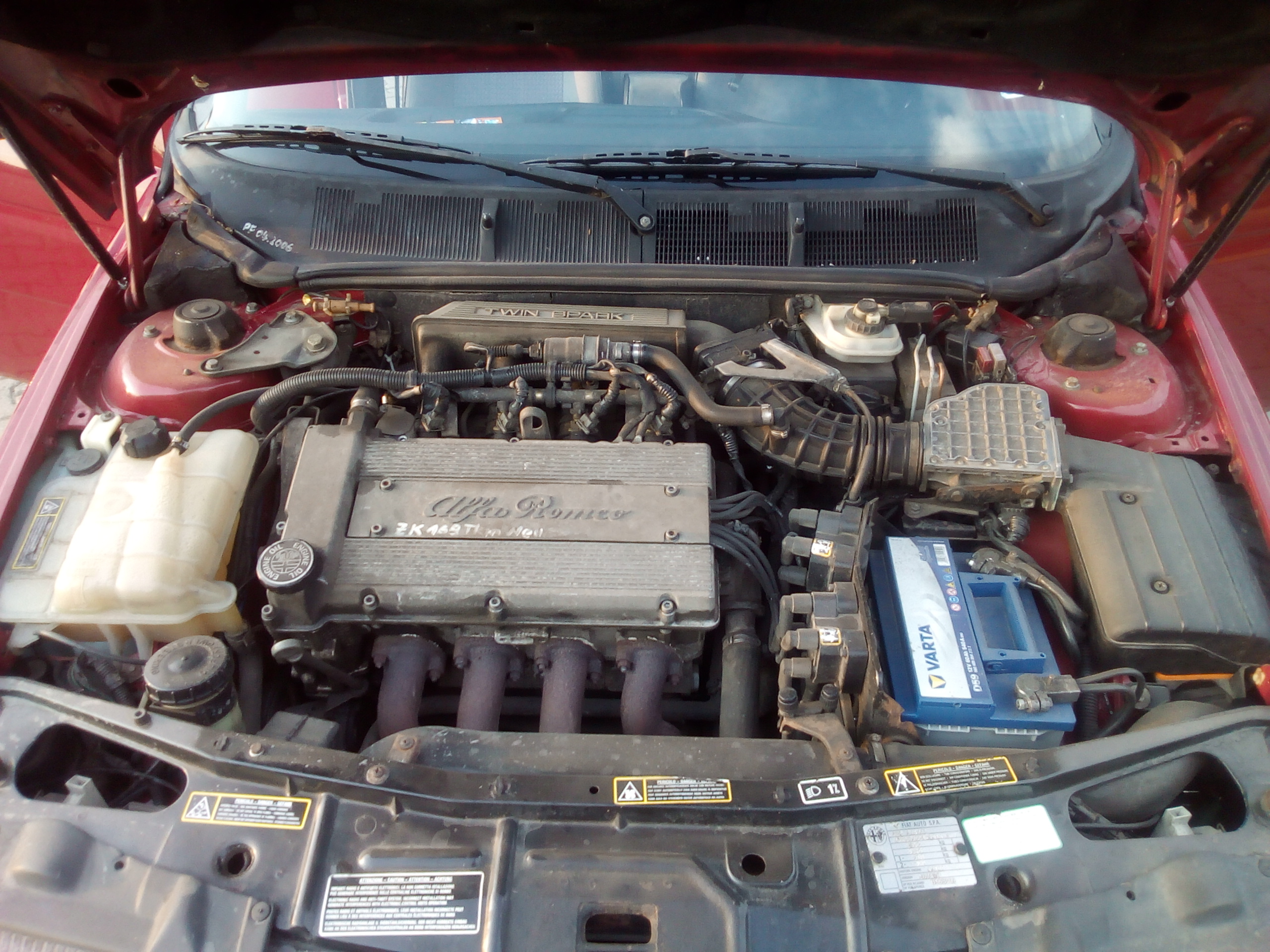 Engine 1.7 Twin Spark in Alfa Romeo 155